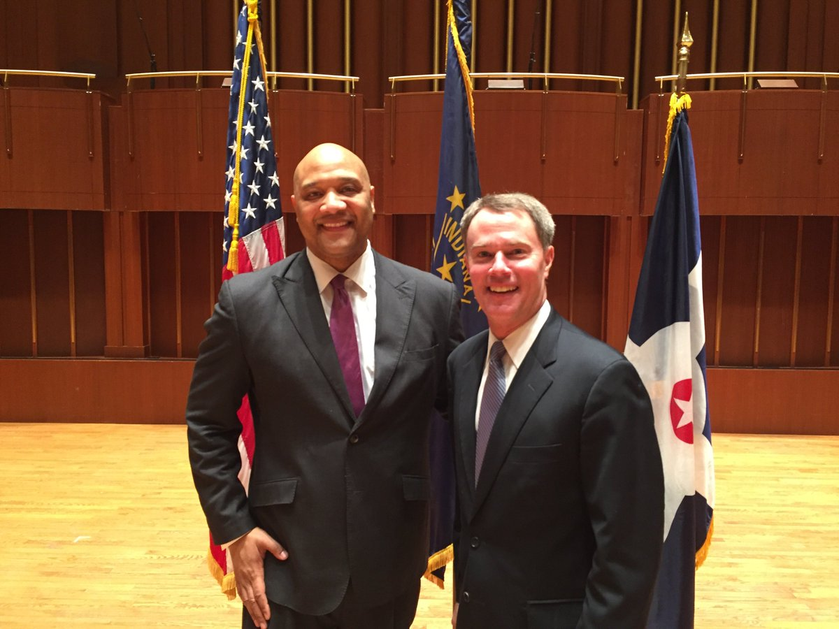 It's a great day for #Indianapolis! Congrats to my friend and our city's new mayor, Joe Hogsett.